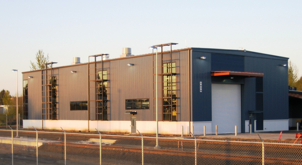 WES maintenance building in Wilsonville, Oregon